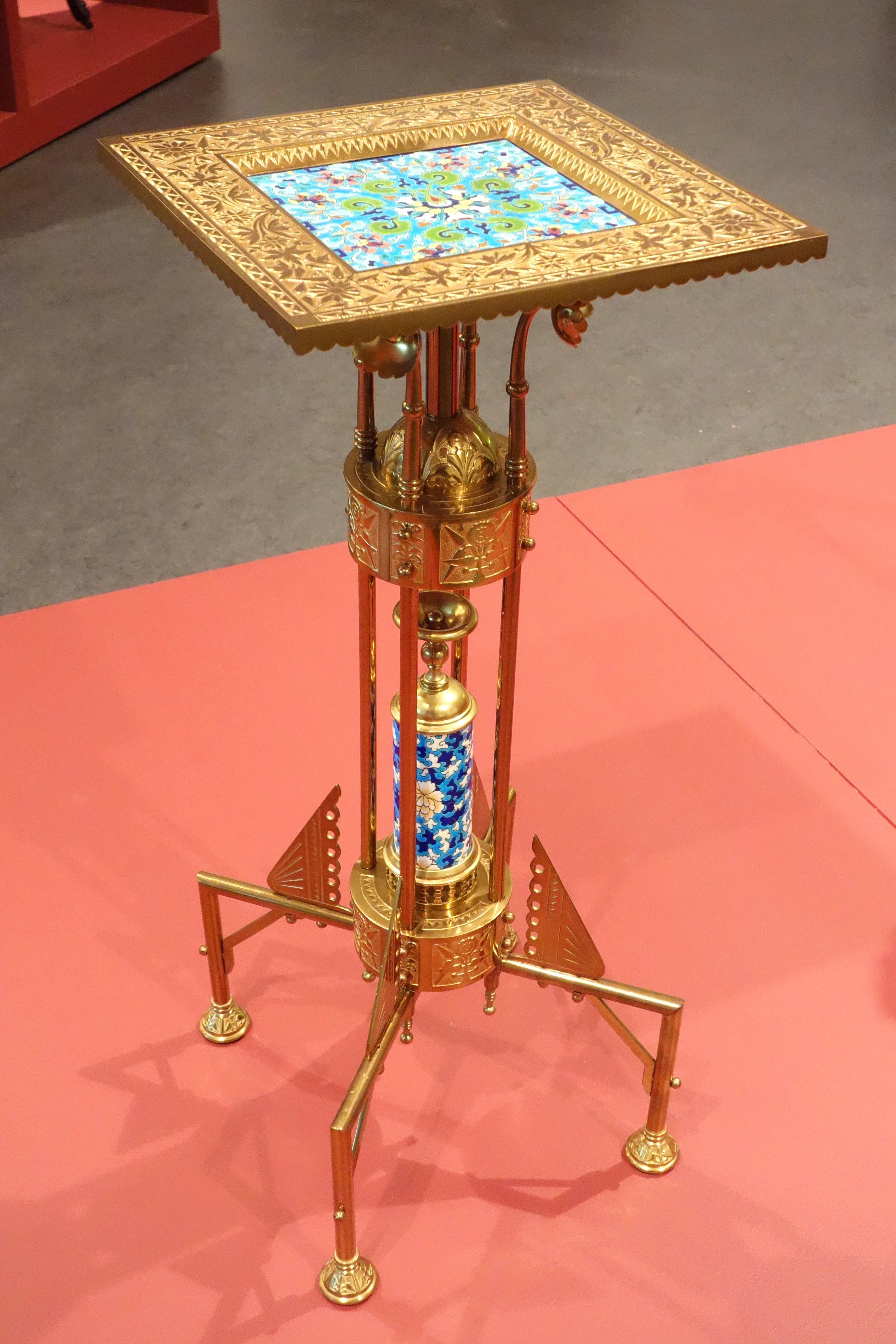 Exhibit in the Brooklyn Museum - Brooklyn, New York, USA. This artwork is in the public domain because the artist died more than 70 years ago.